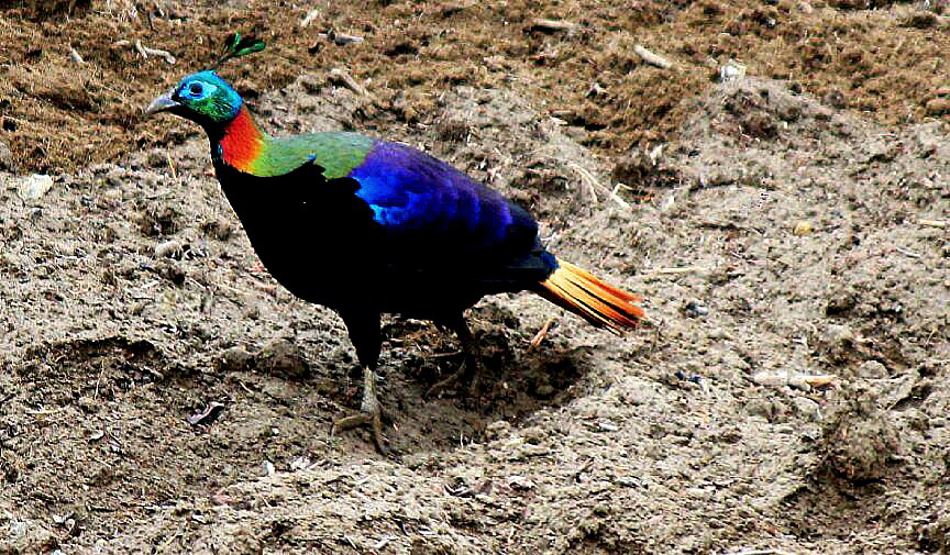 Monal , local name Danfe National bird of Nepal,seen at Kumjum, Sagarmatha National Park.